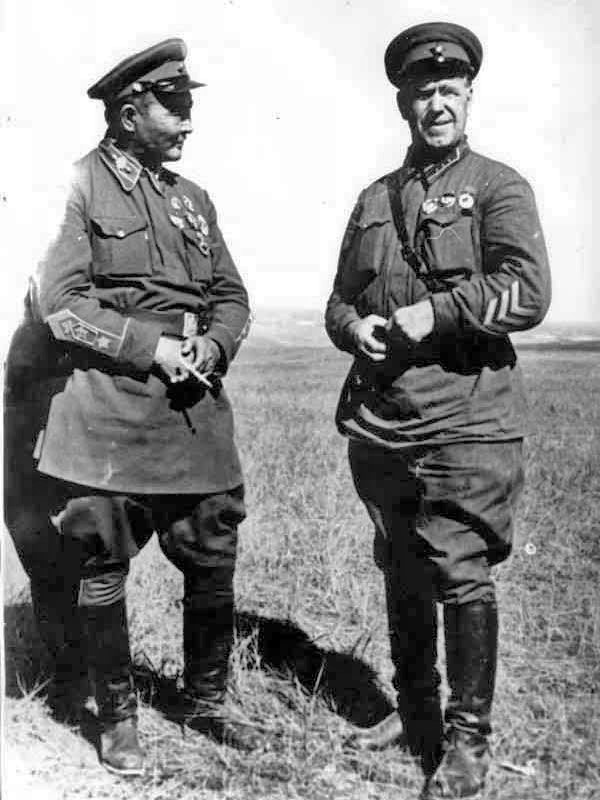 George Zhukov and Khorloogiin Choibalsan, Khalkhyn Gol